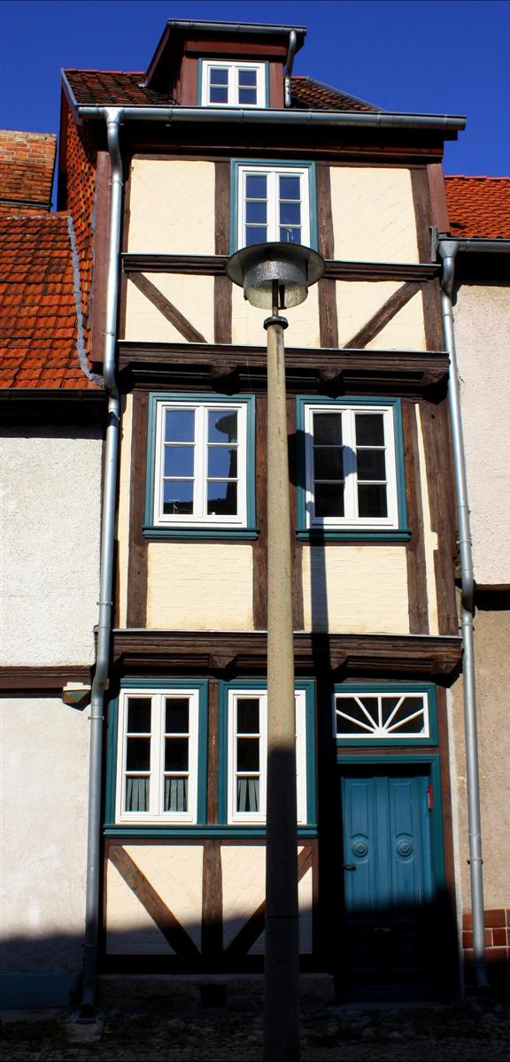 2=Building in Quedlinburg / Germany